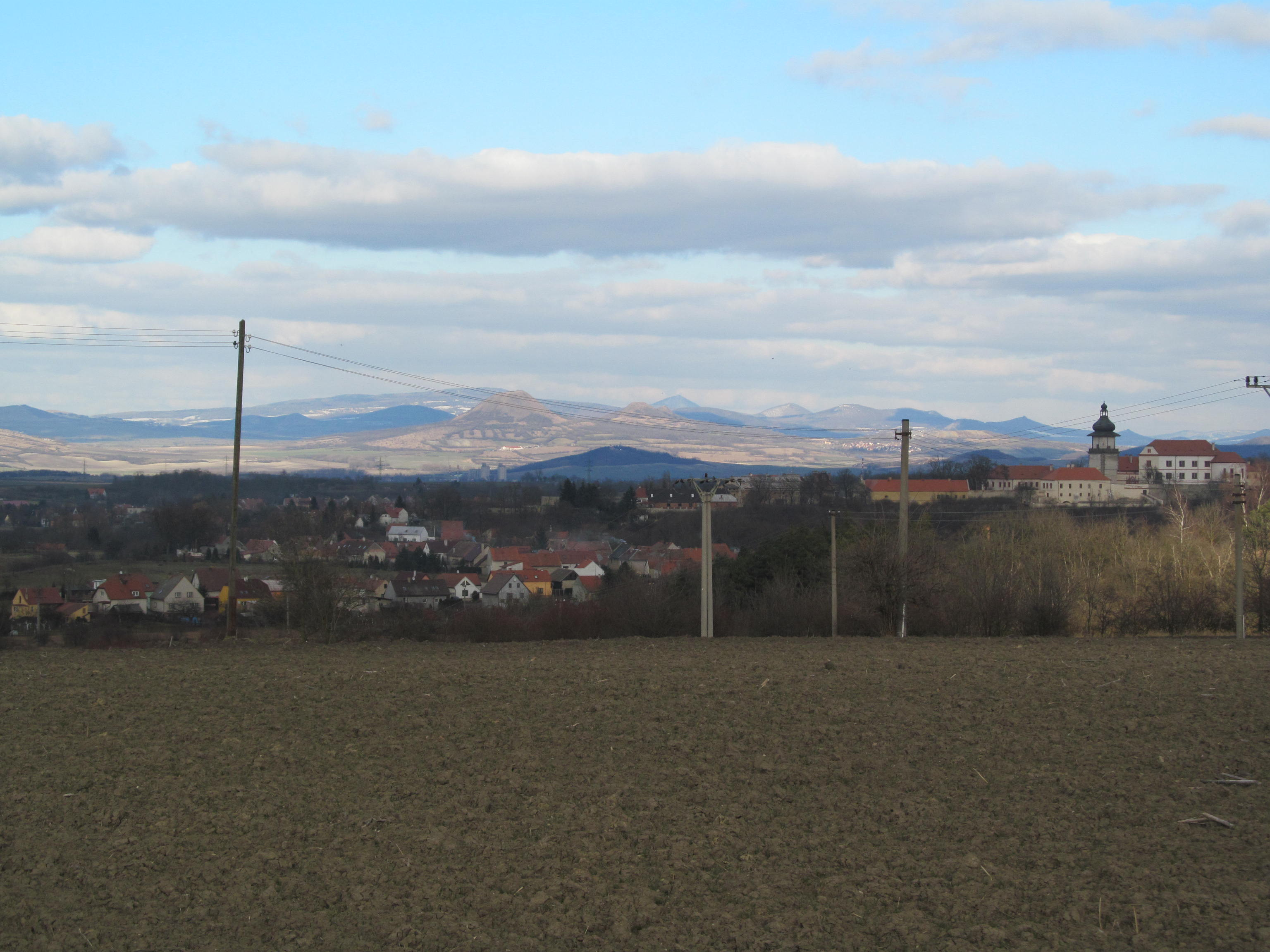 Opočno with the castle Nový Hrad